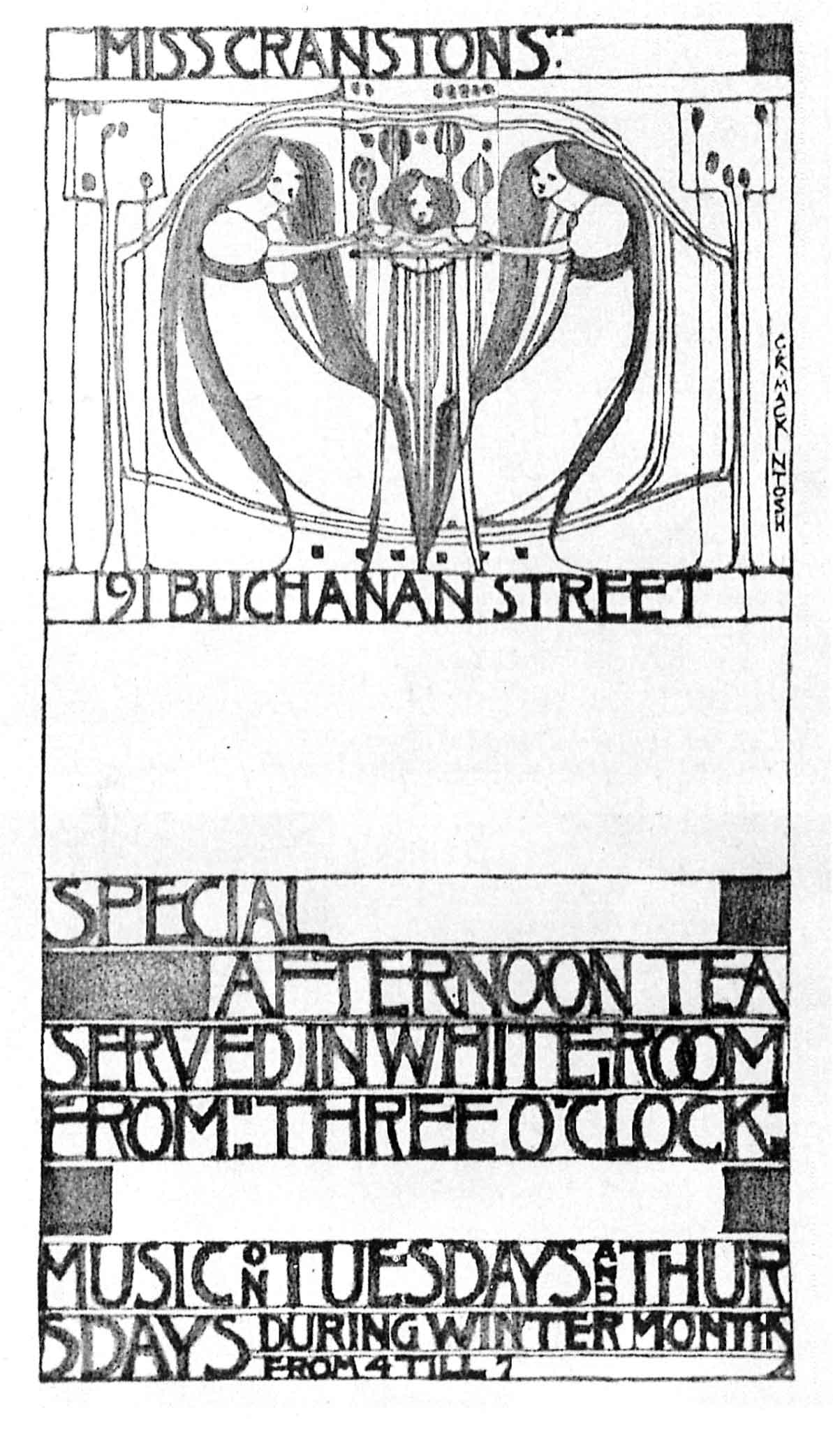 drawing, poster design for Miss Cranston's Tearooms.